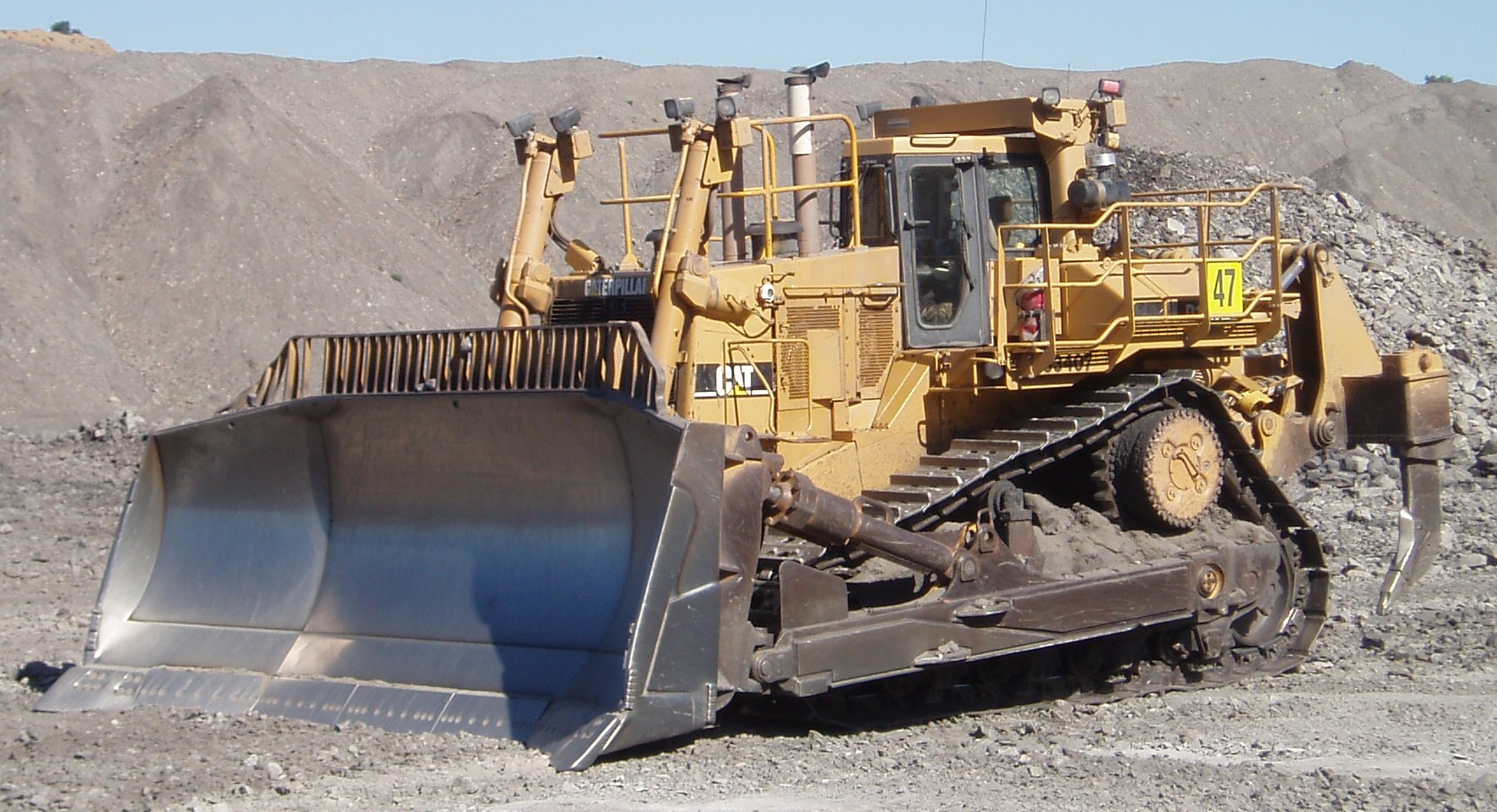 Caterpillar D11 Dozer